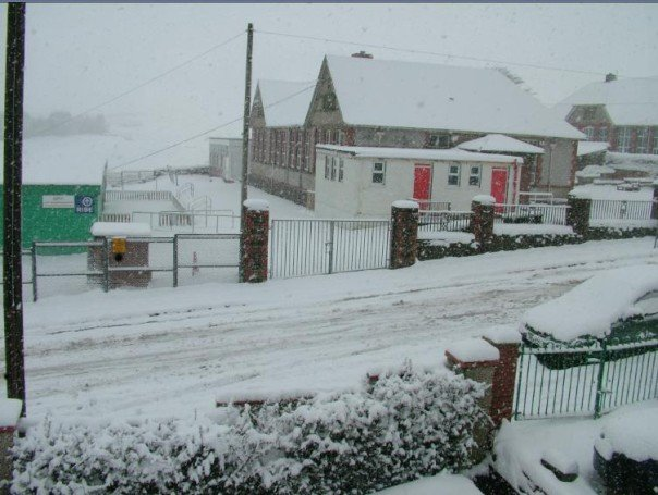 Depicted place: Fochriw